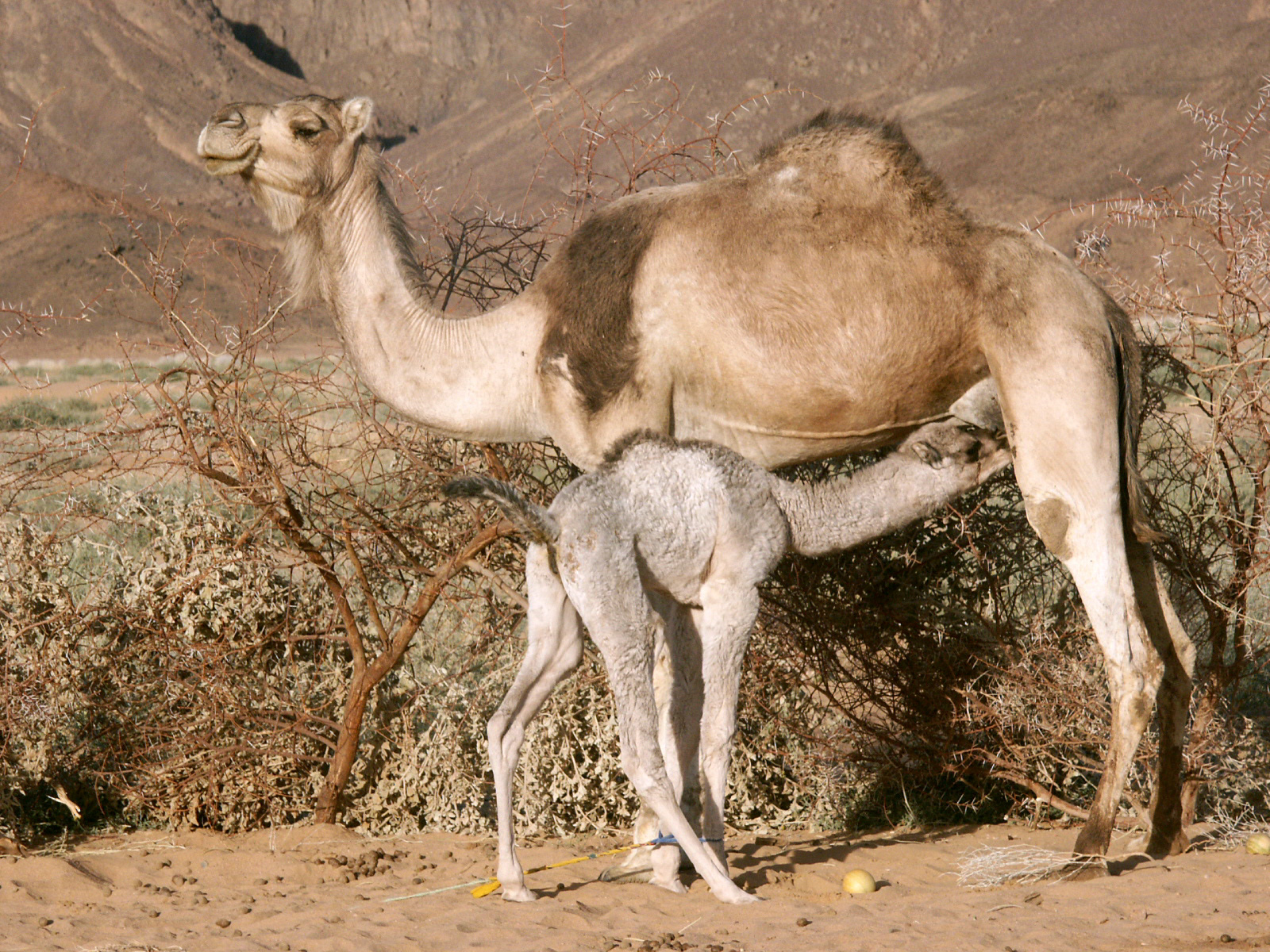 Sahara camel calf feeding from her mother